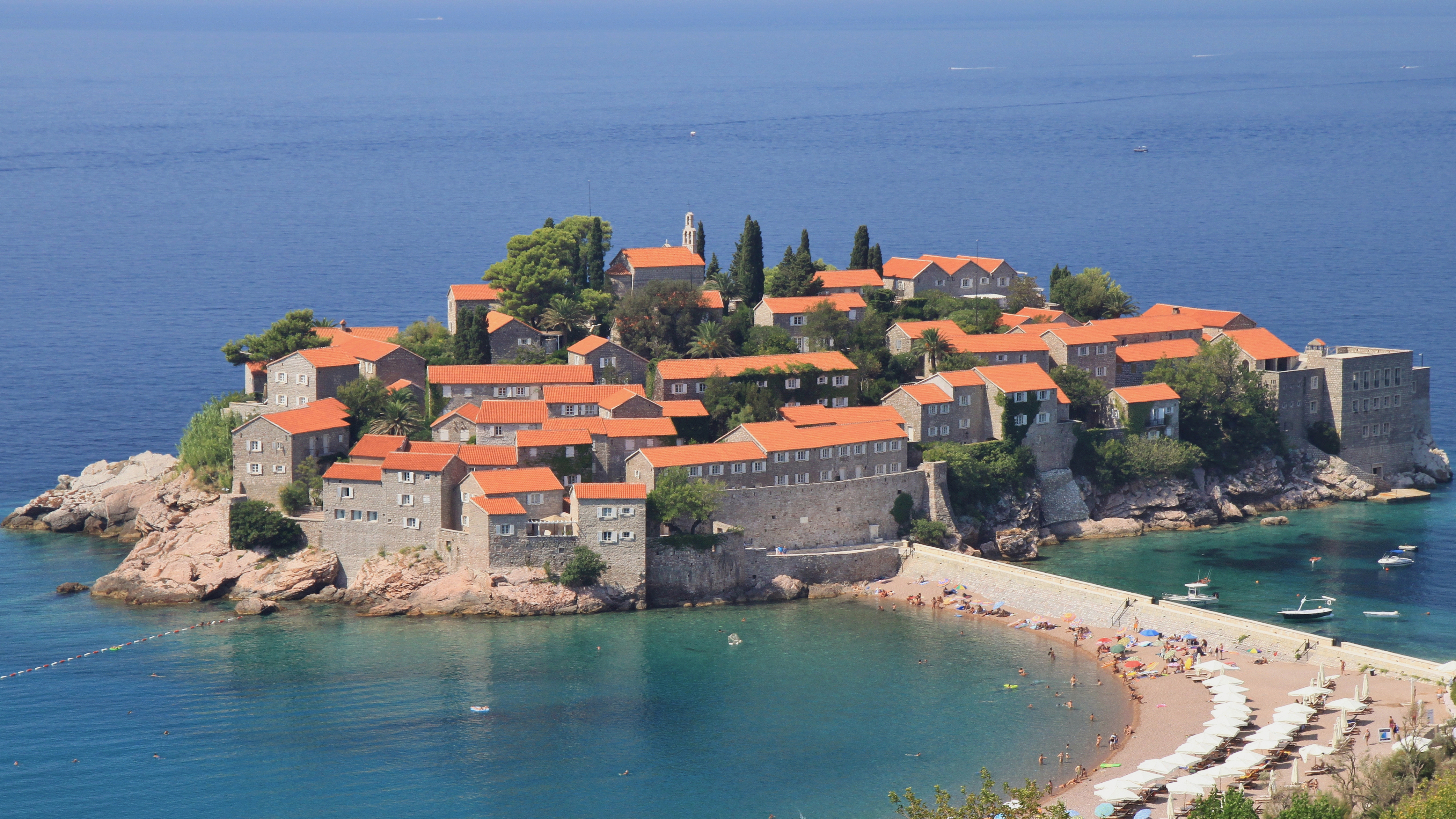 Sveti Stefan, Montenegro.